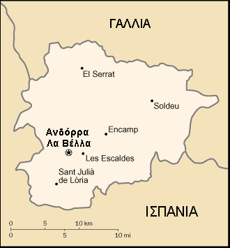 Andorra map from CIA World Factbook